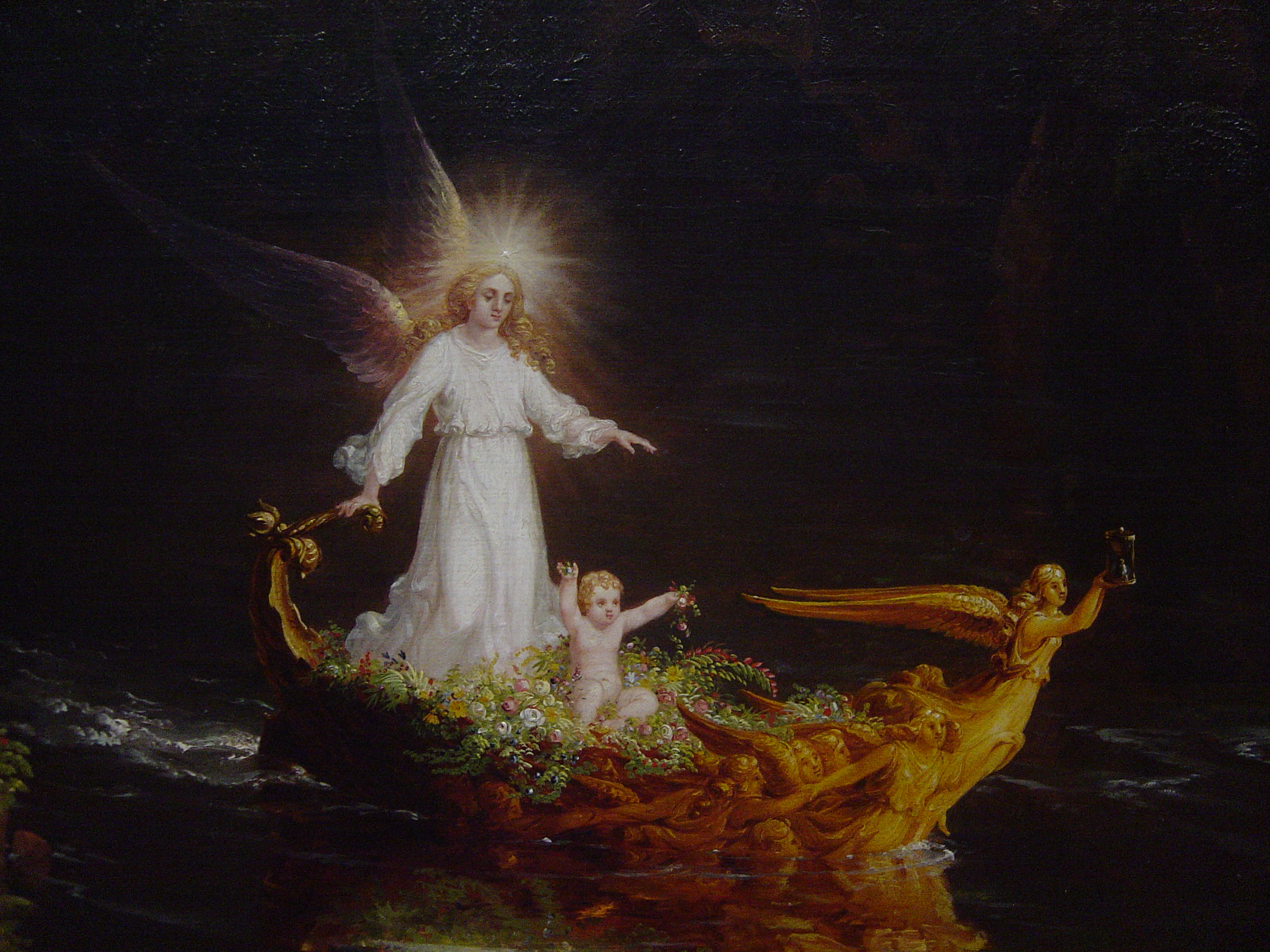 The Voyage of Life Childhood